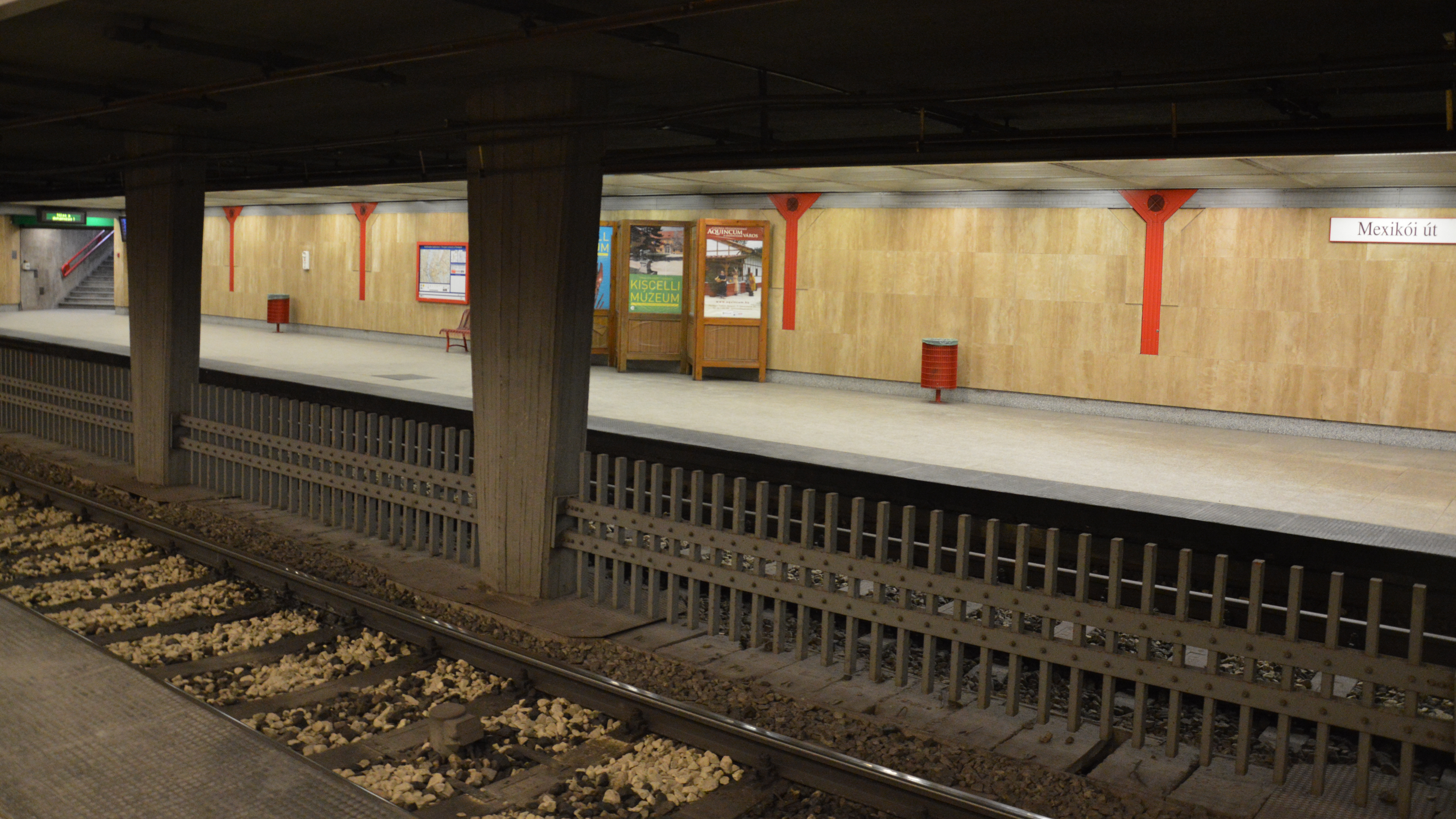 Mexikói út Metro Station, Budapest, Hungary